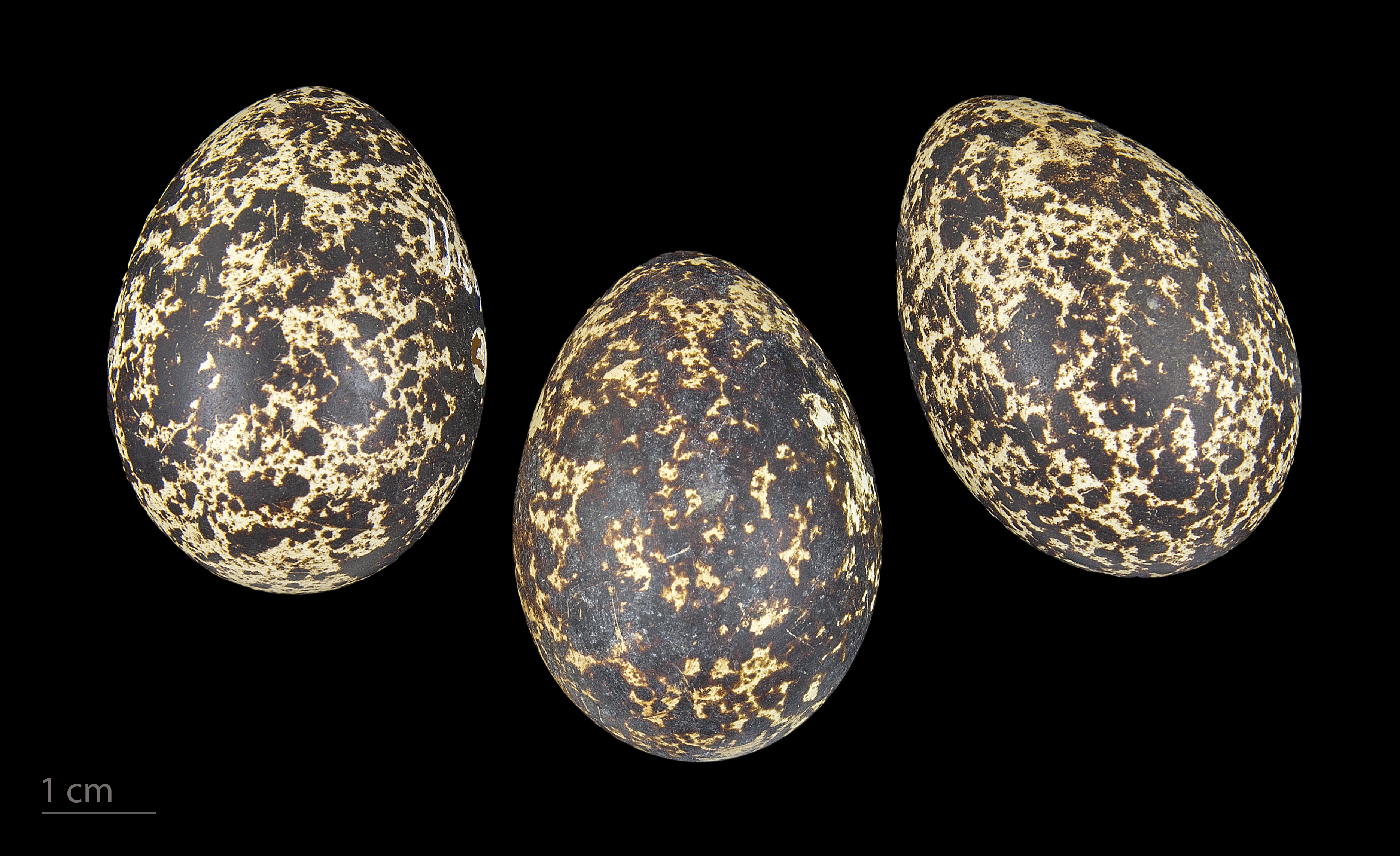 Egg of Lagopus muta islandorum Collection of Jacques Perrin de Brichambaut.